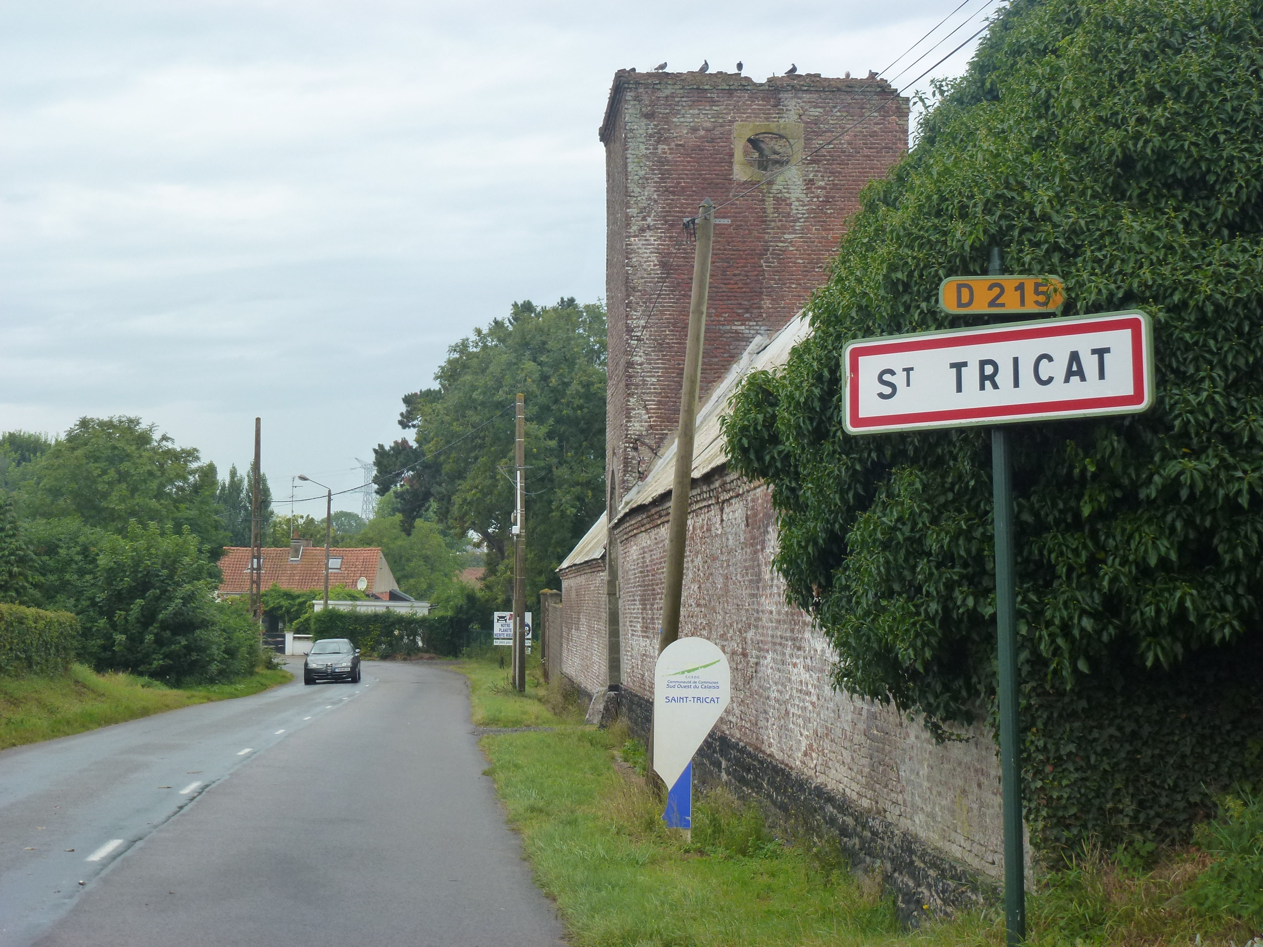 Saint-Tricat (Pas-de-Calais) city limit sign, tour pigeonnier